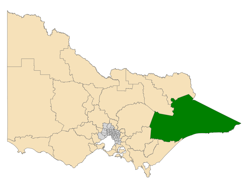 Location of the Electoral District of Gippsland East (dark green) in the state of Victoria, Australia. These boundaries were used for the Victorian state election on 29 November 2014.